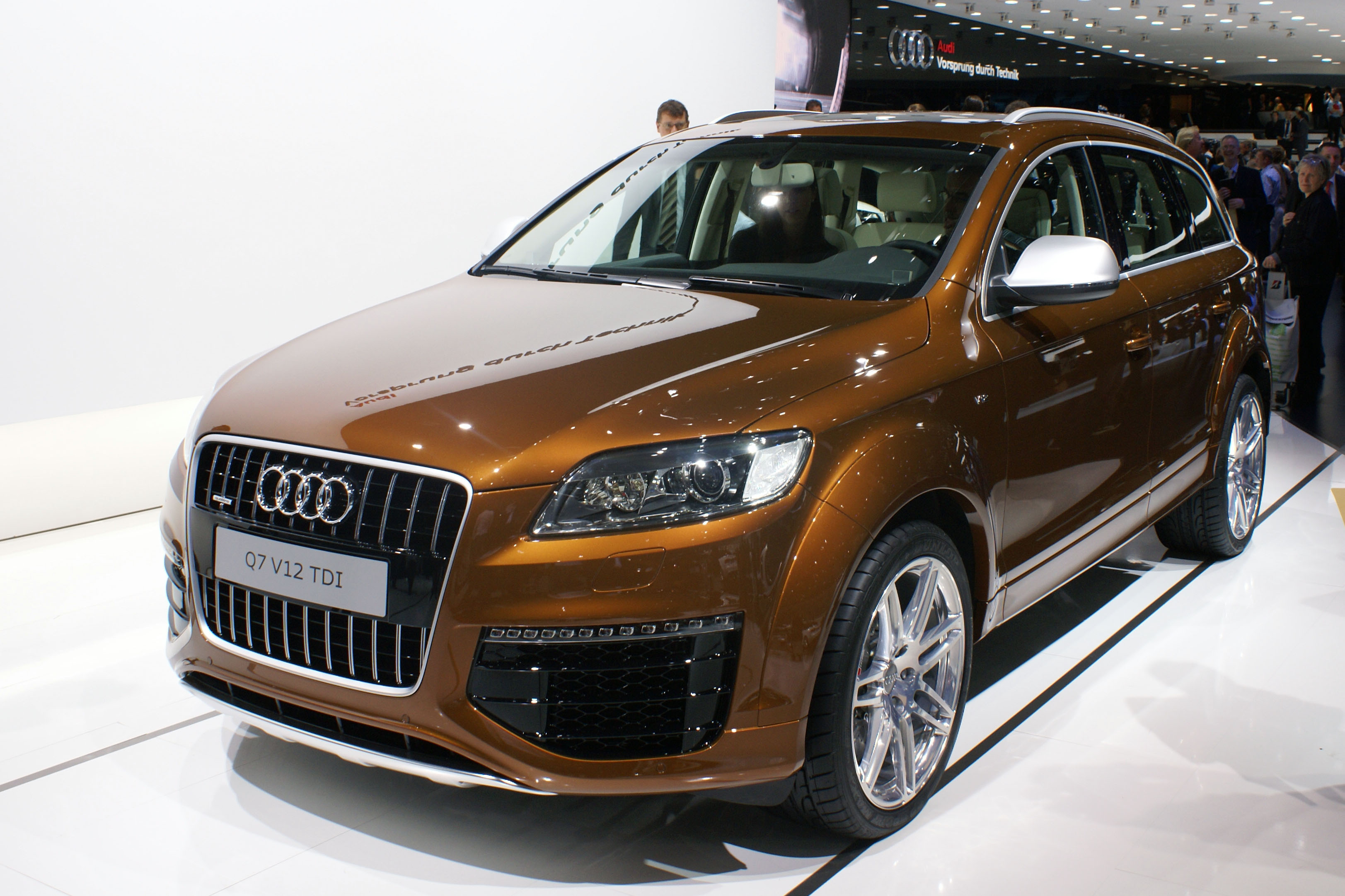 Audi Q7 V12 TDI at the 2009 IAA